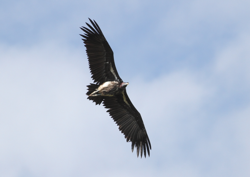 Torgos tracheliotos (Accipitridae) (Lappet-faced Vulture), Kruger National Park, South Africa